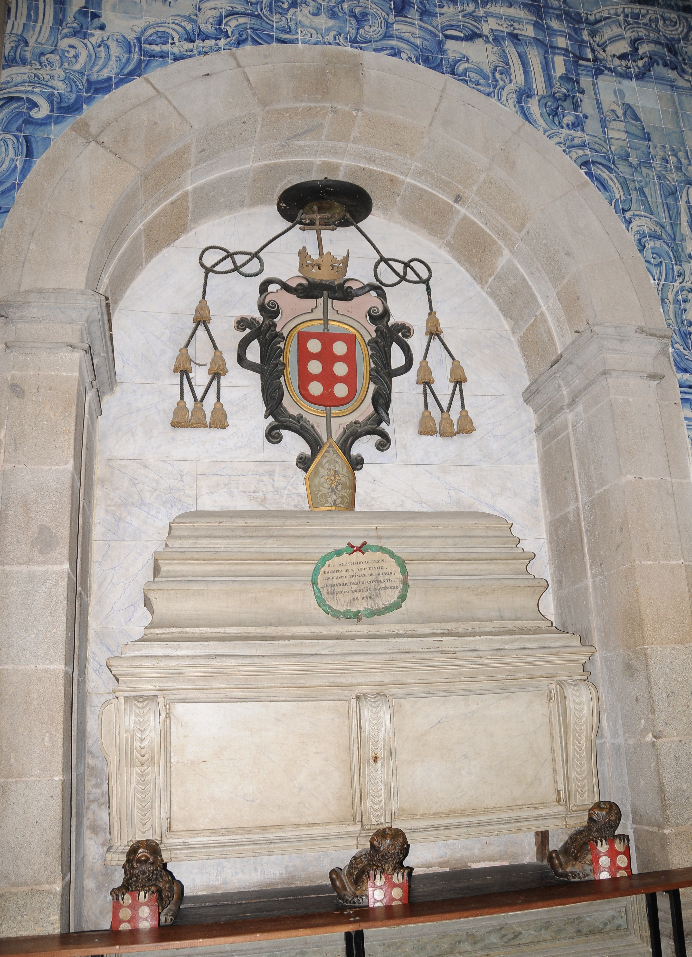 Tomb of Agostinho de Jesus, Archbishop of Braga, in Populo Church, Braga, Portugal.